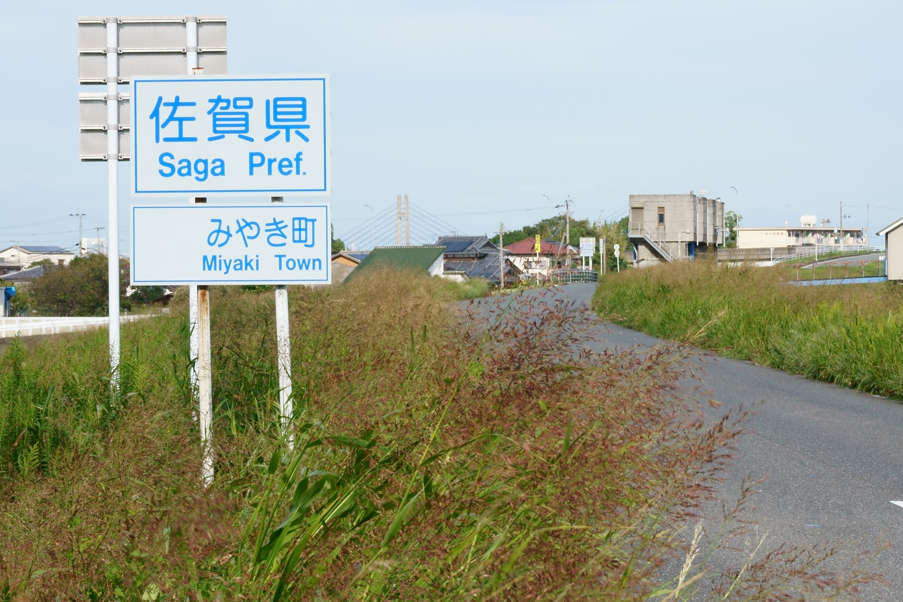 Two Saga/Fukuoka prefecture limit signs at side of road, in Jōjima-machi Shimoda, Kurume city, Fukuoka and Higashizu, Miyaki town, Saga.